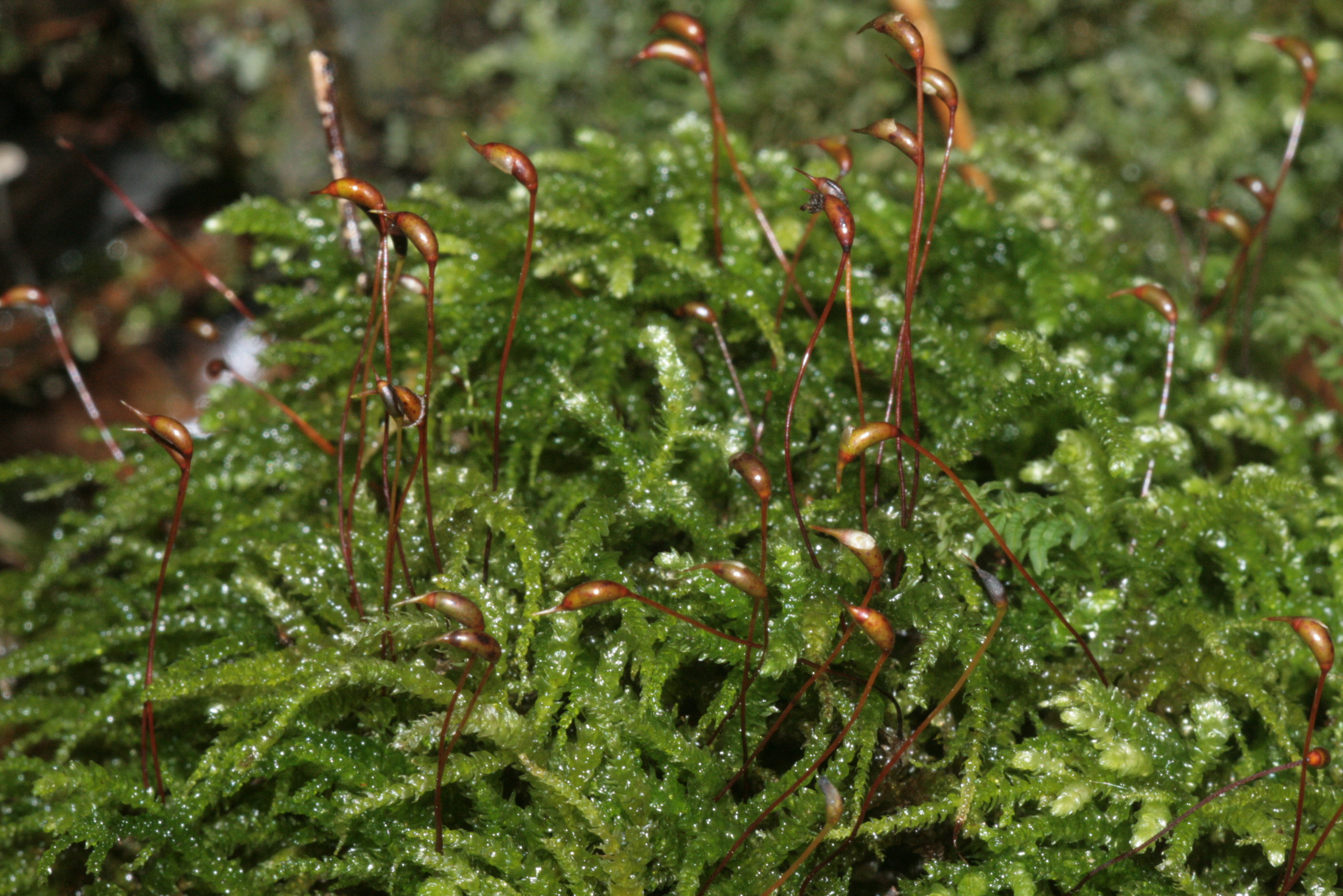 Eurhynchium angustirete